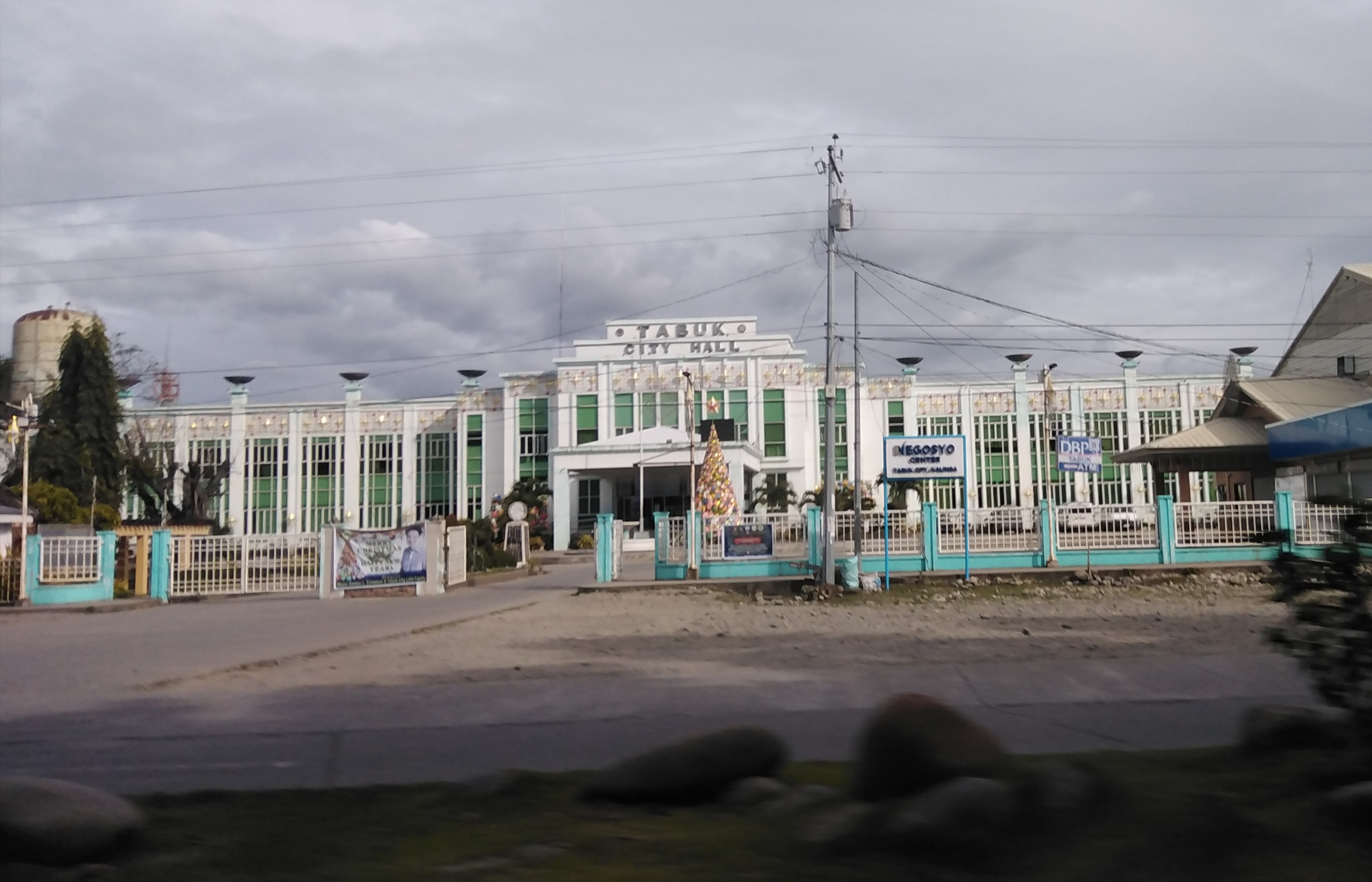 City Hall of Tabuk, Kalinga